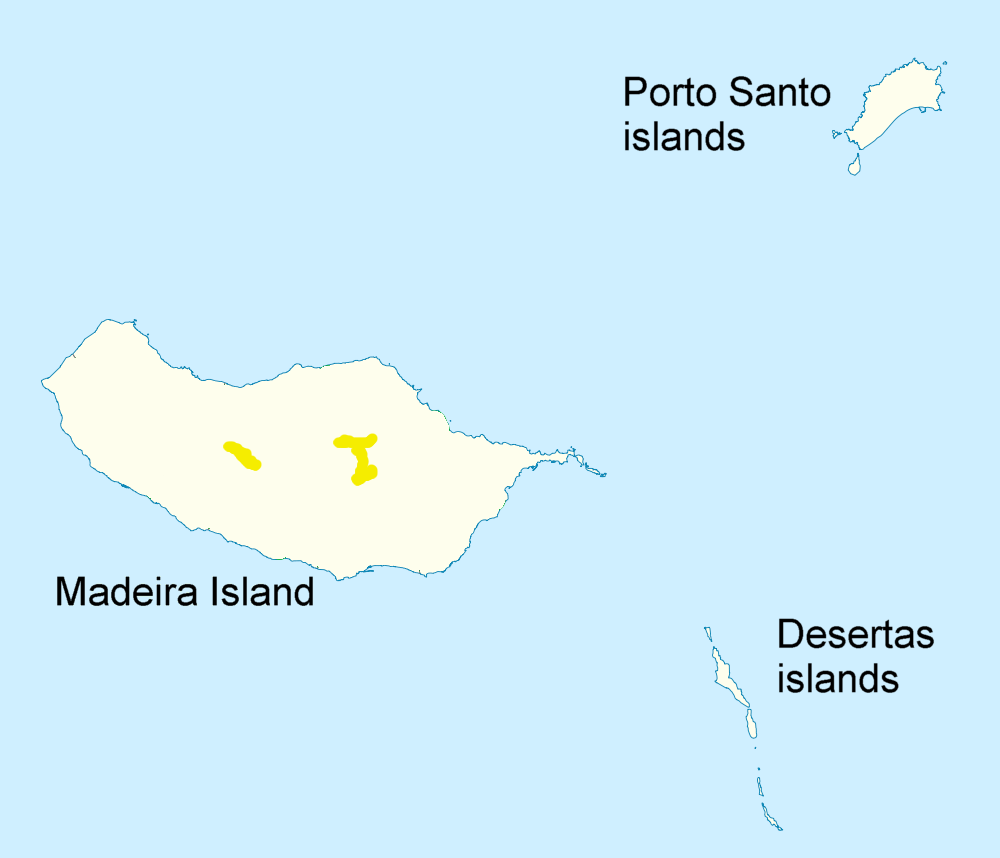 Location map of Madeira, Portugal Geographic limits of the map: * N: 33.16° N * S: 32.38° N * W: 17.31° W * E: 16.23° W